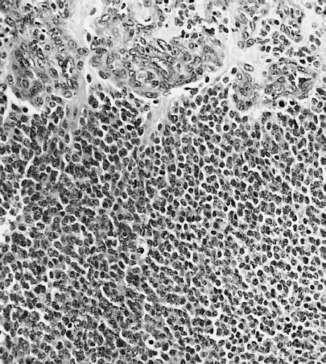 The diagnosis of anaplastic ependymoma is based upon high cell density, brisk mitotic activity, and vascular proliferation. Cytologic atypia or necrosis is often seen, but may be observed also in low-grade ependymomas.